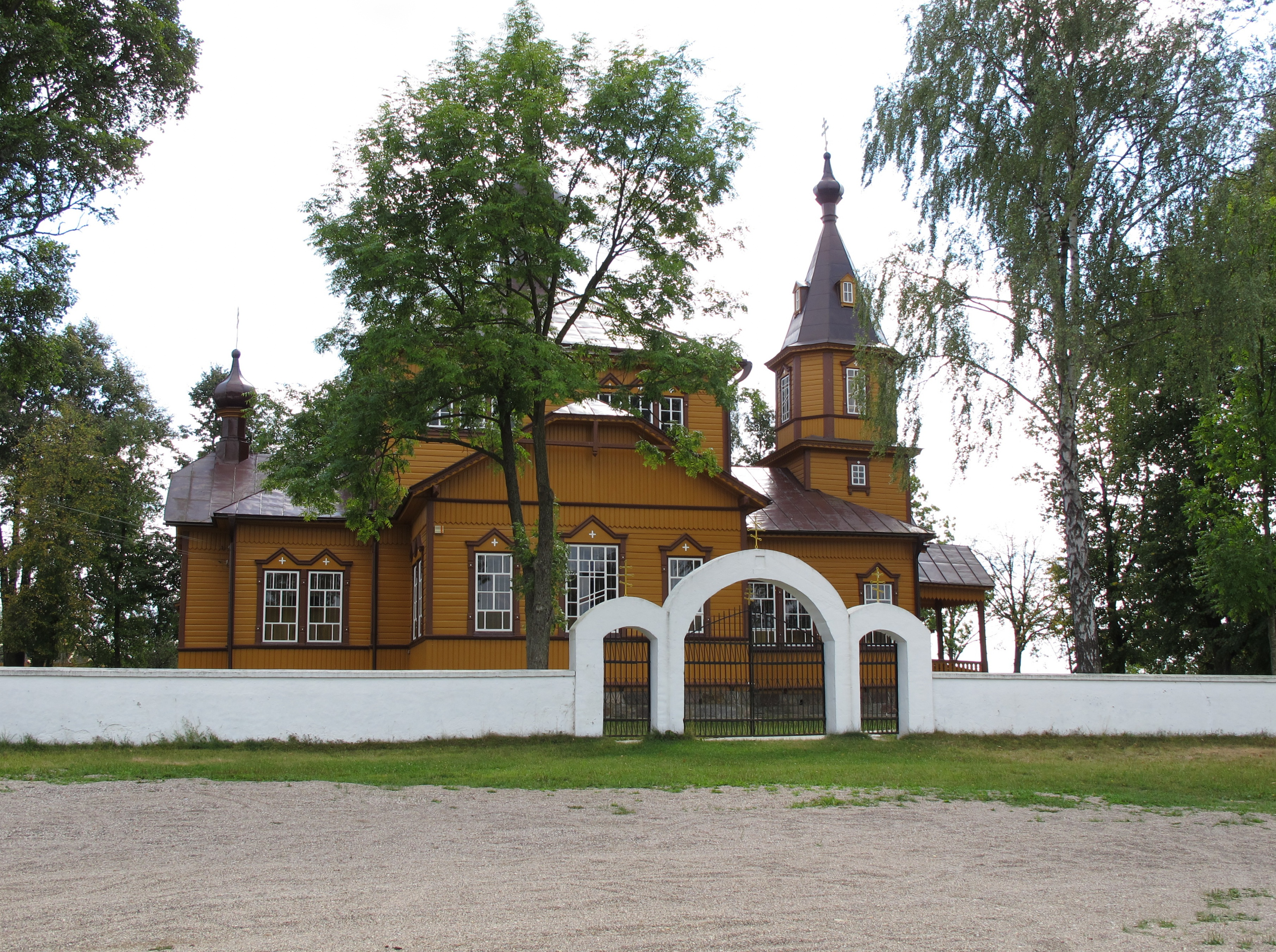 Orthodox church of Nativity of Virgin Mary in Juszkowy Gród, gmina Michałowo, podlaskie, Poland